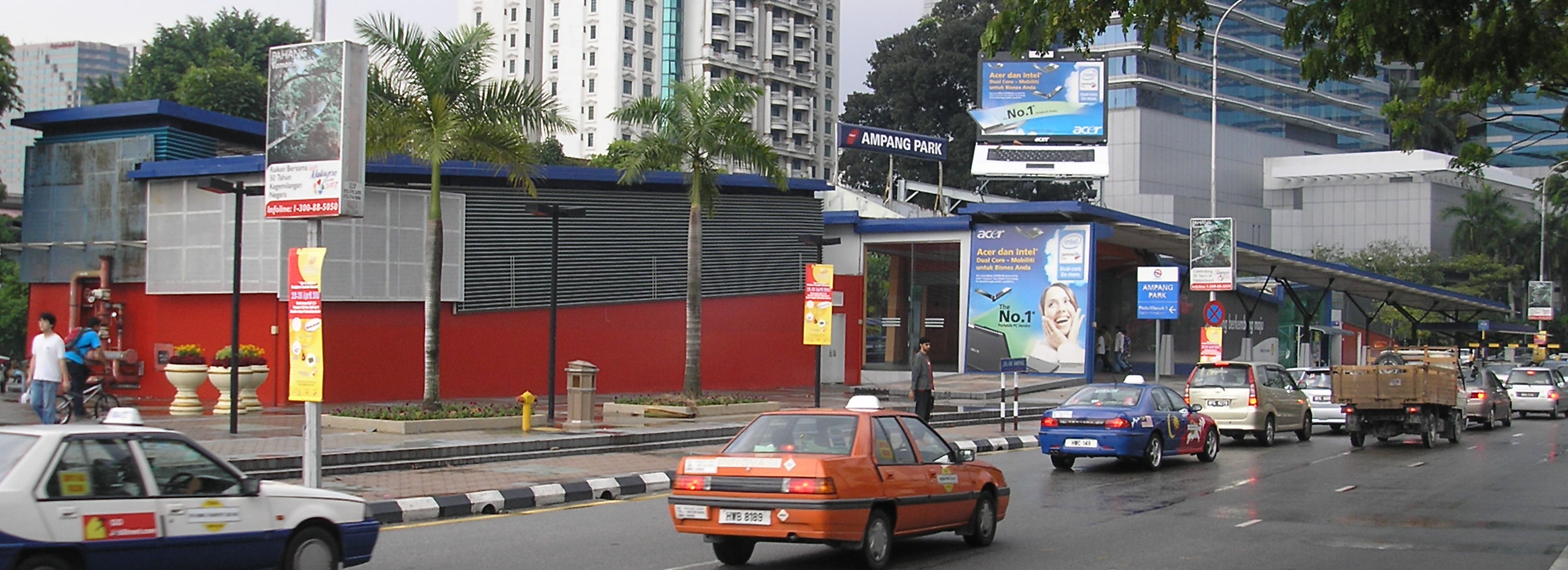 One of two surface Ampang Park LRT station (Kelana Jaya Line) exits, Kuala Lumpur, Malaysia.